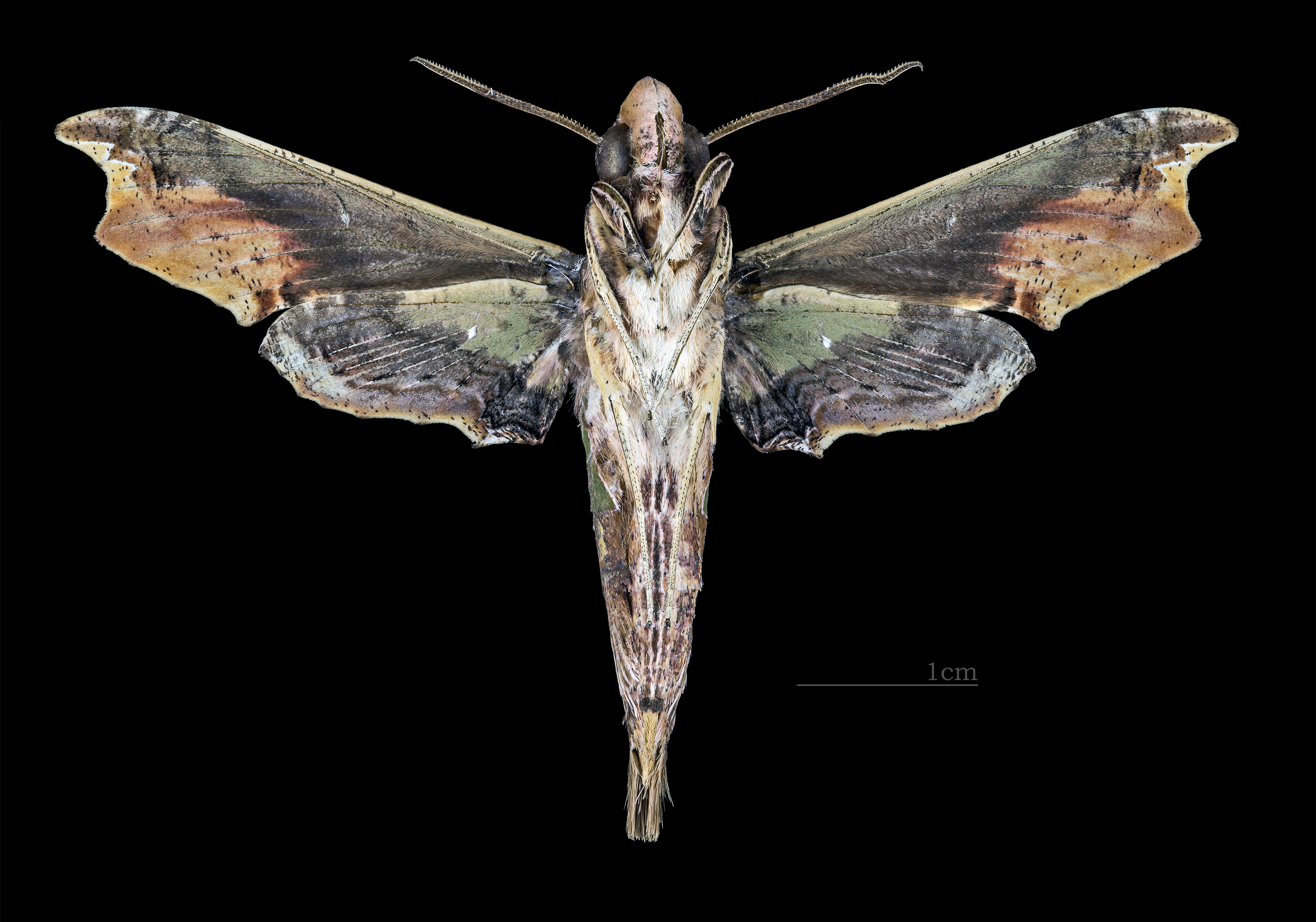 Eupanacra busiris - △ Ventral side Collection of the Mathematician Laurent Schwartz